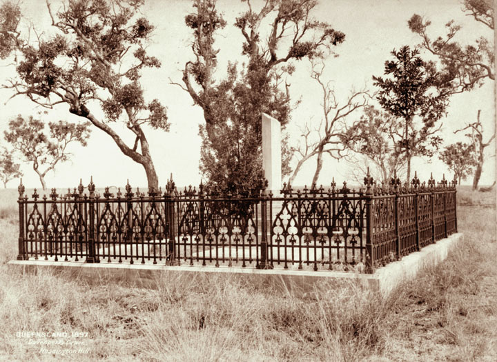 Davenport's grave at Headington Hill with broken pillar and cast iron fence. (George Henry Davenport, born 30 October 1831, was the Member of the Legislative Assembly for Drayton & Toowoomba from 15 November 1878 until his death on 1 January 1881.)